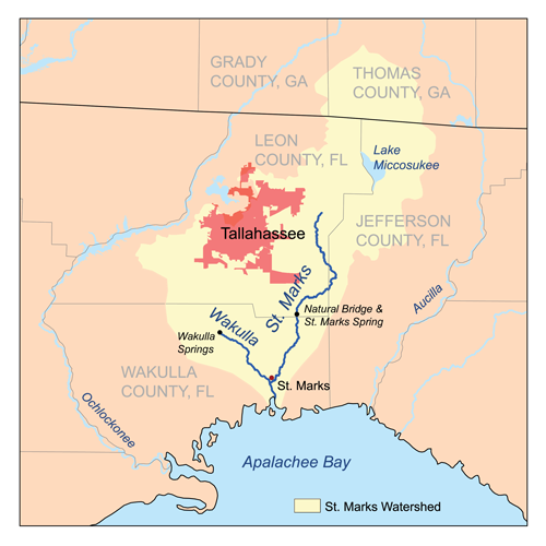 This is a map of the St. Marks River watershed. I, Karl Musser, created it based on USGS and Census Bureau data. Supplemental sources: [1], [2].